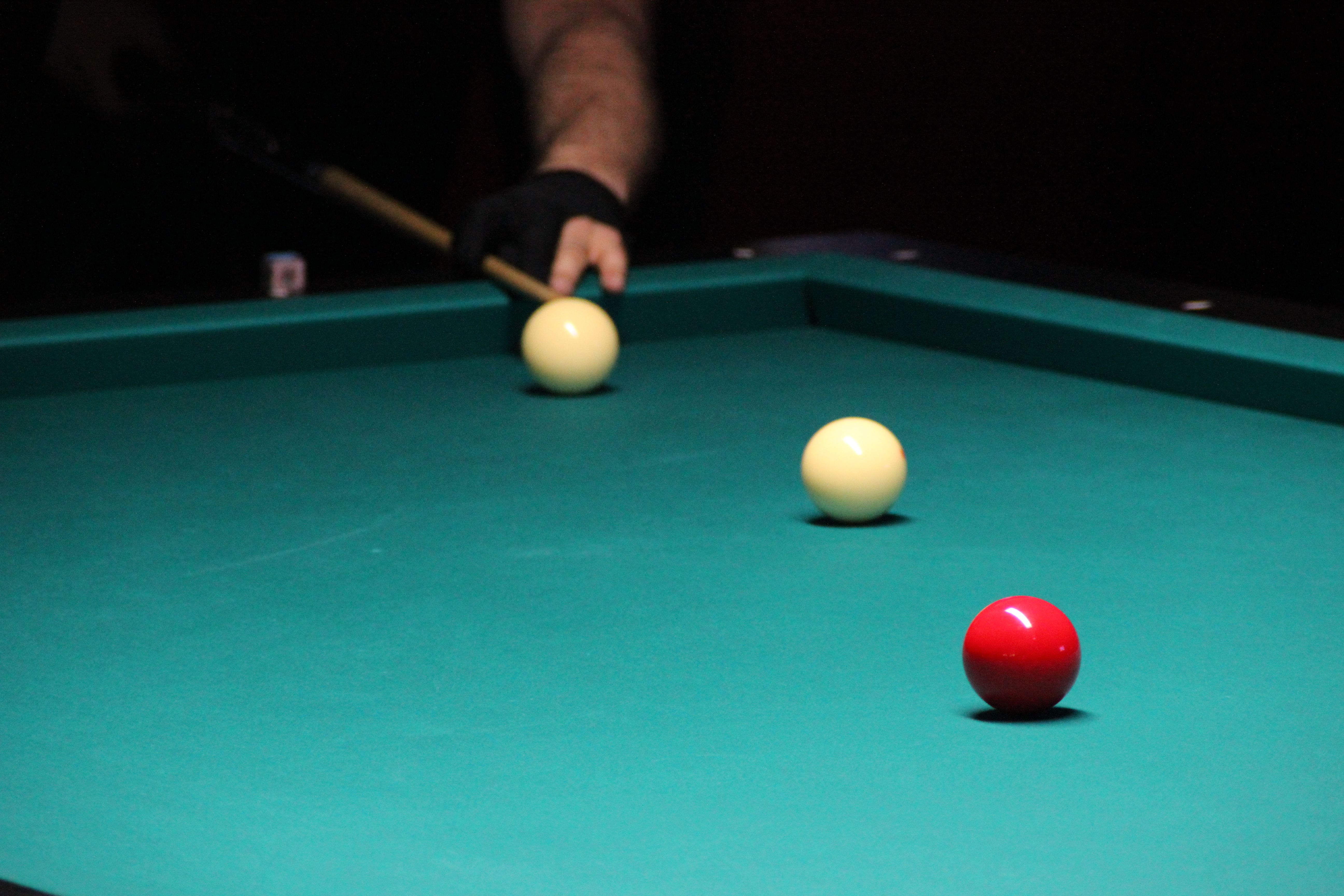 French championships of carom billiards 2012 in Voisins-le-Bretonneux. - Google Maps - Google Earth